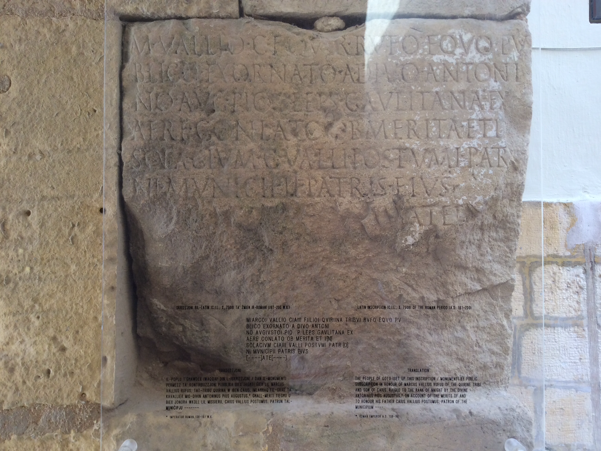 Main gate - Citadel This media is about Maltese cultural property with inventory number 01474.